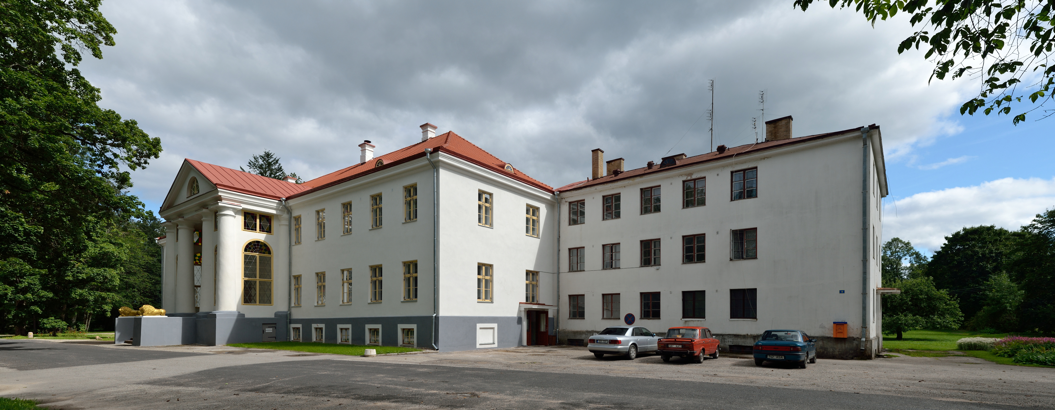 Voltveti manor main building